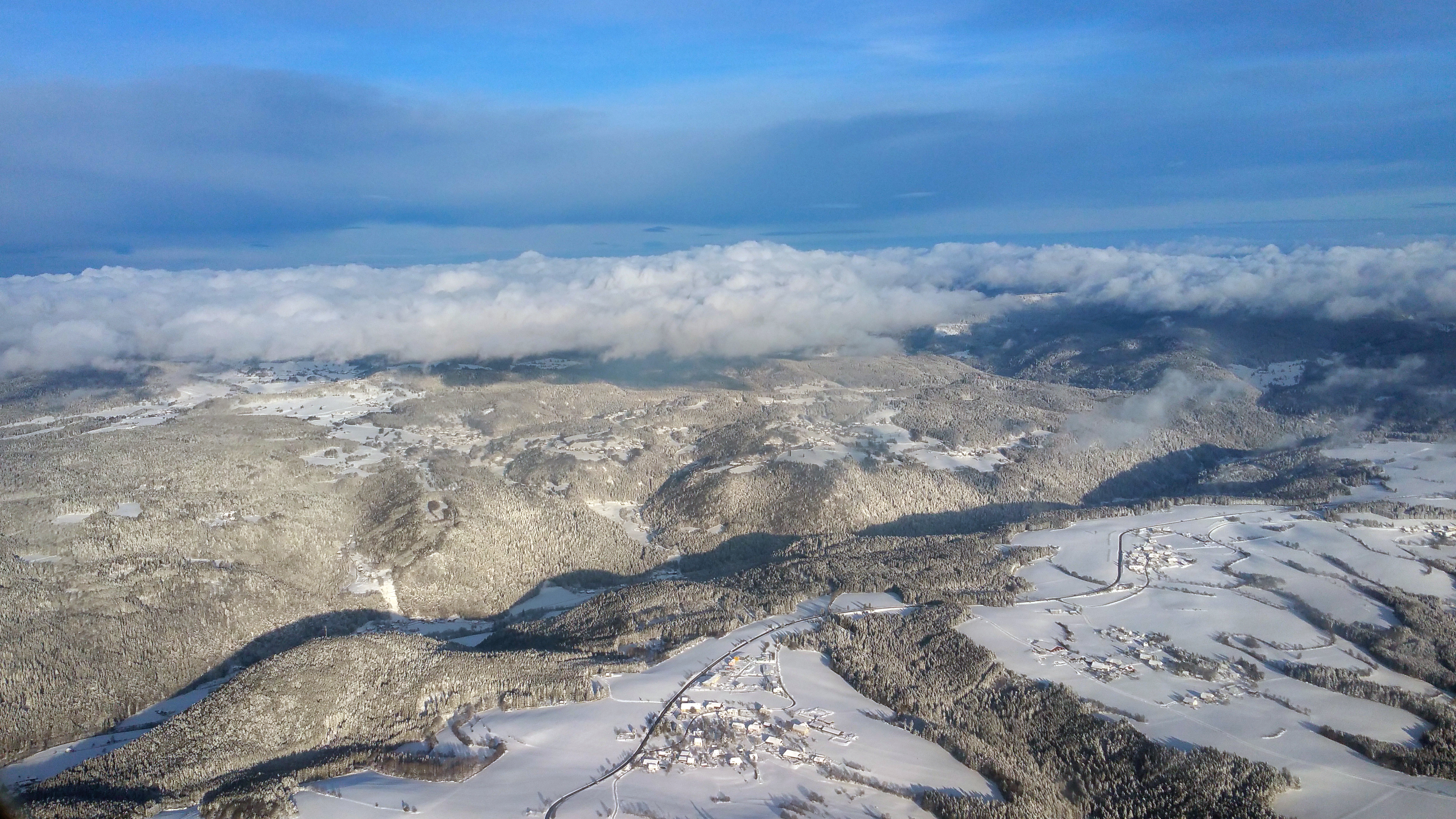 Germany, Baden-Württemberg, approach into ZRH across the Southern part of Black Forest